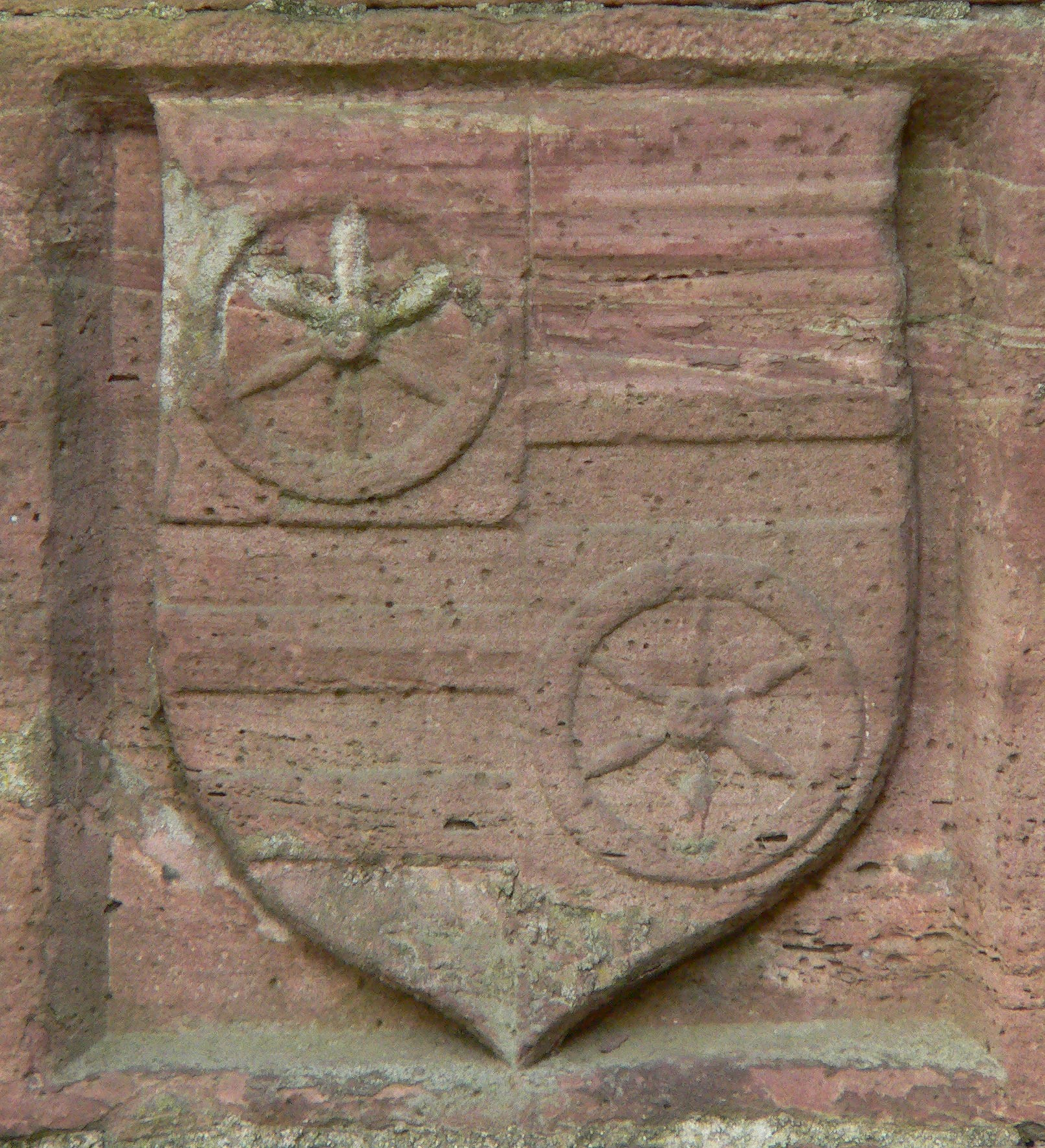 Diether von Isenburg's coa at the Höchst defensive wall